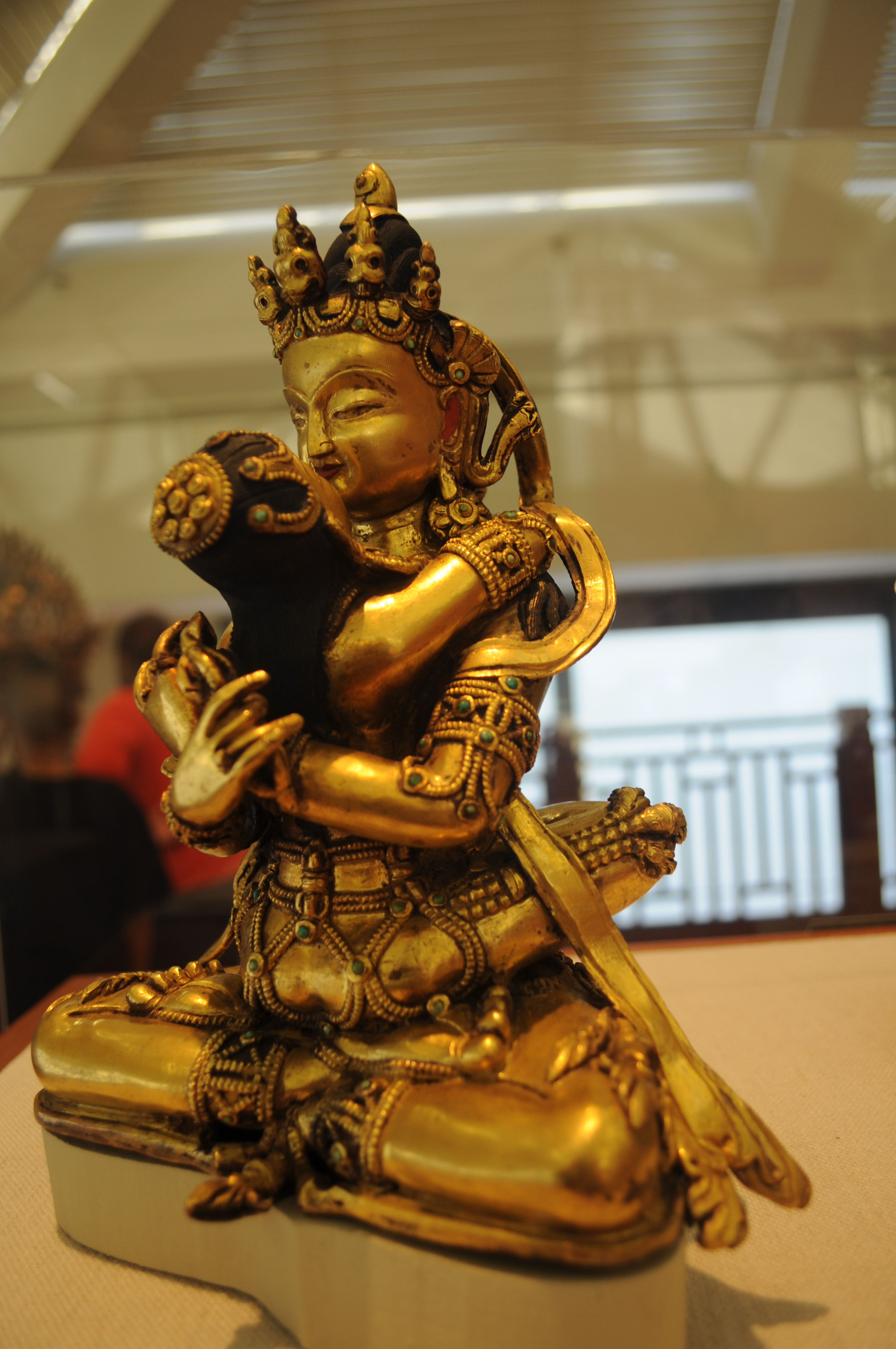 Vajradhara (Holder of the Thunderbolt) or (Tibetan) Dorje Chang, Tibet, 19th century, copper alloy, gilt, red lacquer, black paint, turquoise. Accession number 2012.81. Part of the tantric art exhibit Honored Father-Honored Mother, Trammell & Margaret Crow Collection of Asian Art, Dallas, Texas, USA.